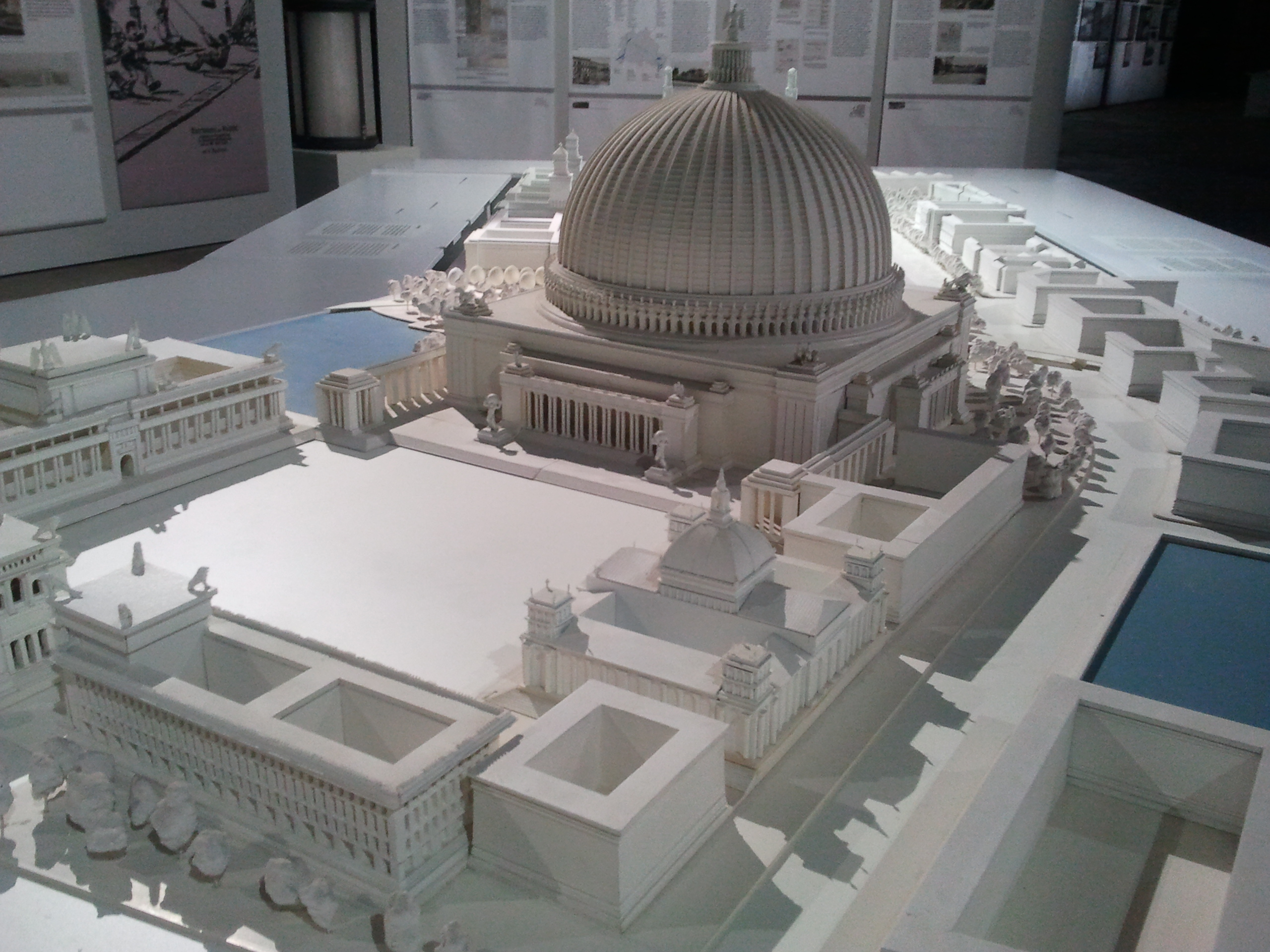 Model of the Große Halle (also called Ruhmeshalle or Volkshalle). The entire architectural model is composed of three parts resp. segments: The central part (from the triumphal arch to the Volkshalle) was built for the 2004 movie Downfall (Oliver Hirschbiegel) and is not a fully accurate realization of the Generalbauinspektor's plan. For the 2005 movie "Speer und Er" (Heinrich Breloer) the model was expanded with the significantly more precise southern and northern railway stations and its forecourts. Part of the Myth "Germania" and the "Temple City" of Nuremberg exhibition at the Documentation Center in Nuremberg (April 7, 2011 - September 11, 2011).